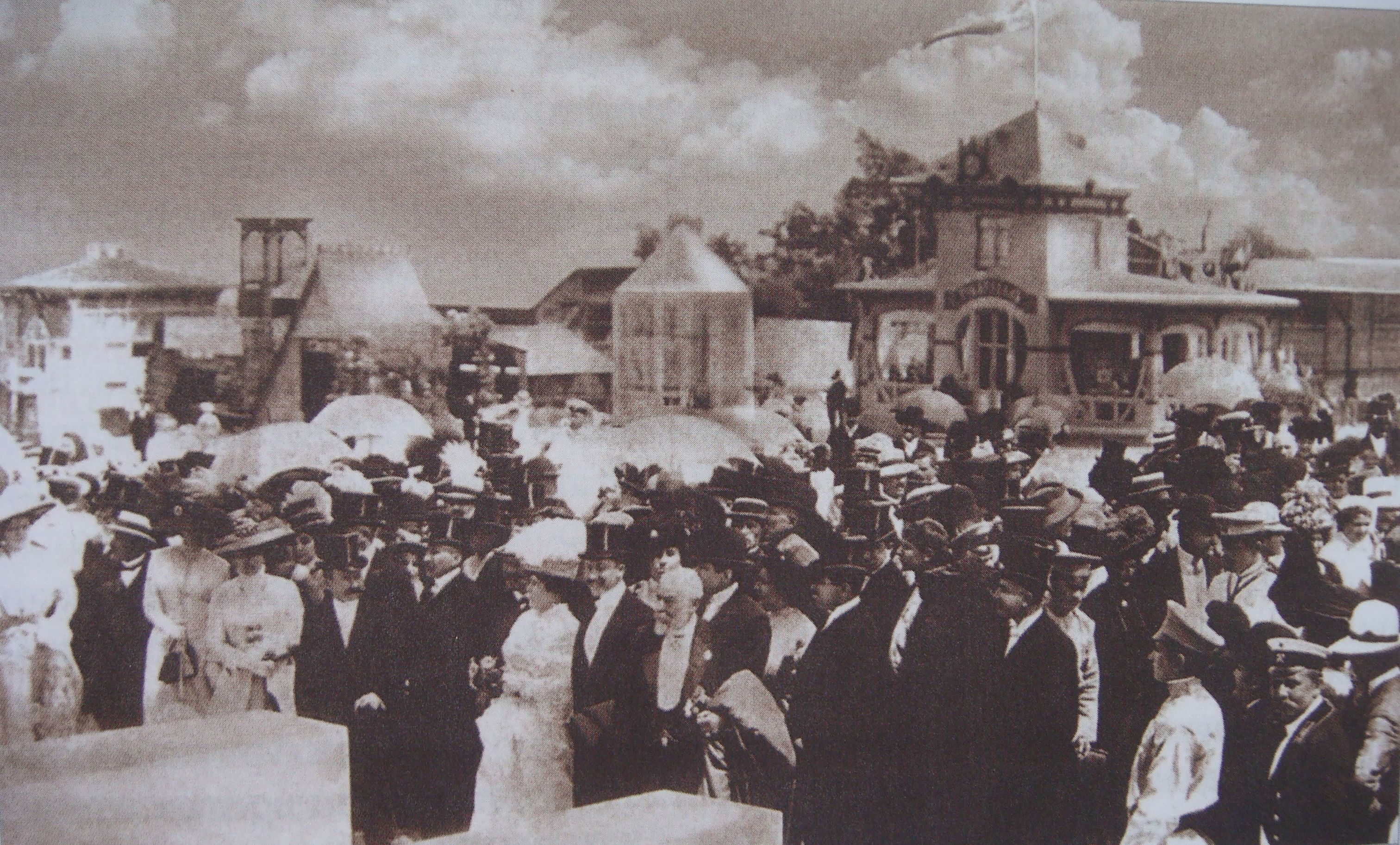 Visitors at the opening of Odessa Art & Industry Exposition, May the 25th (June the 7th), 1910.